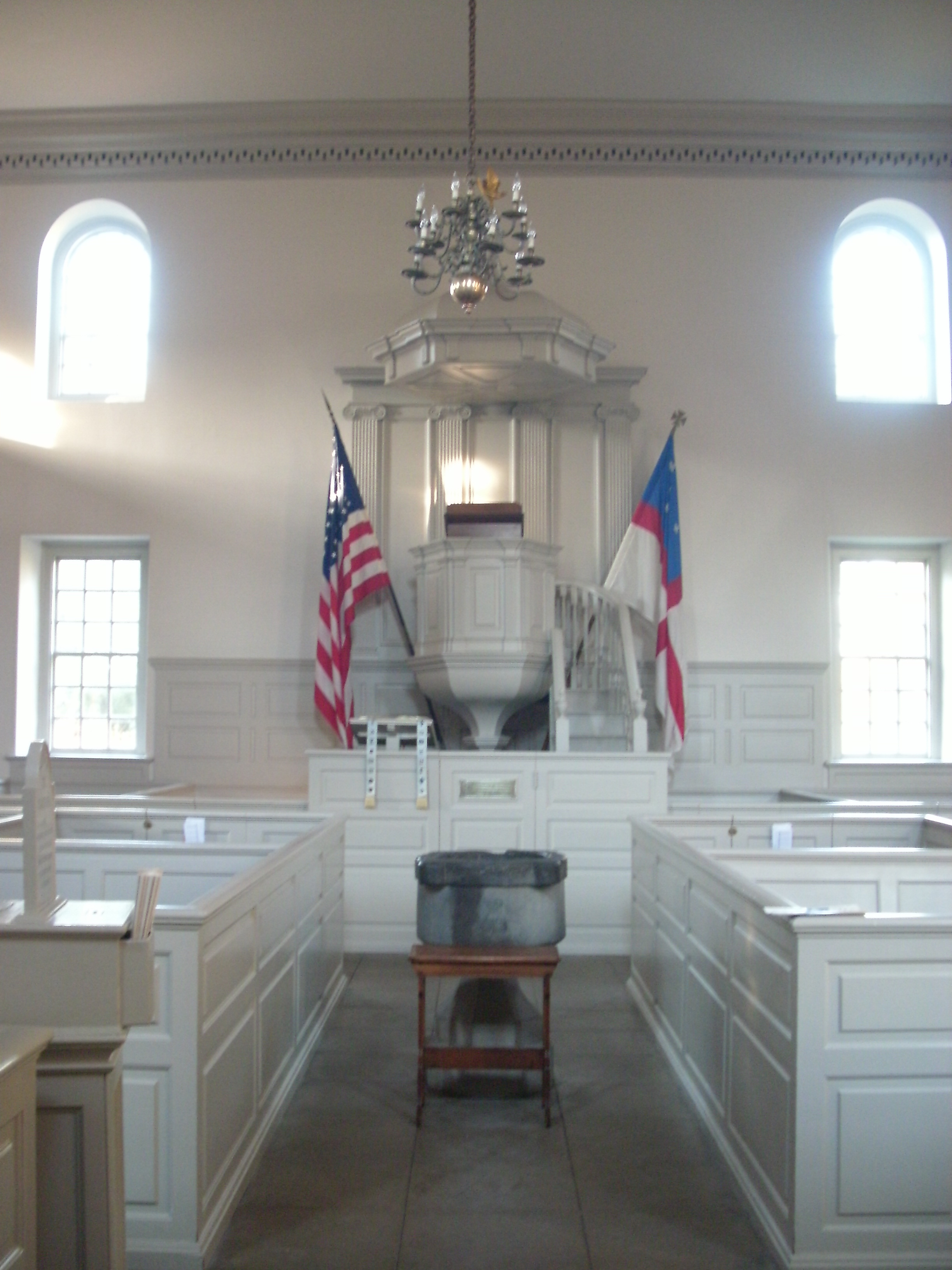 Pohick Church - November, 2009 GEDSC DIGITAL CAMERA